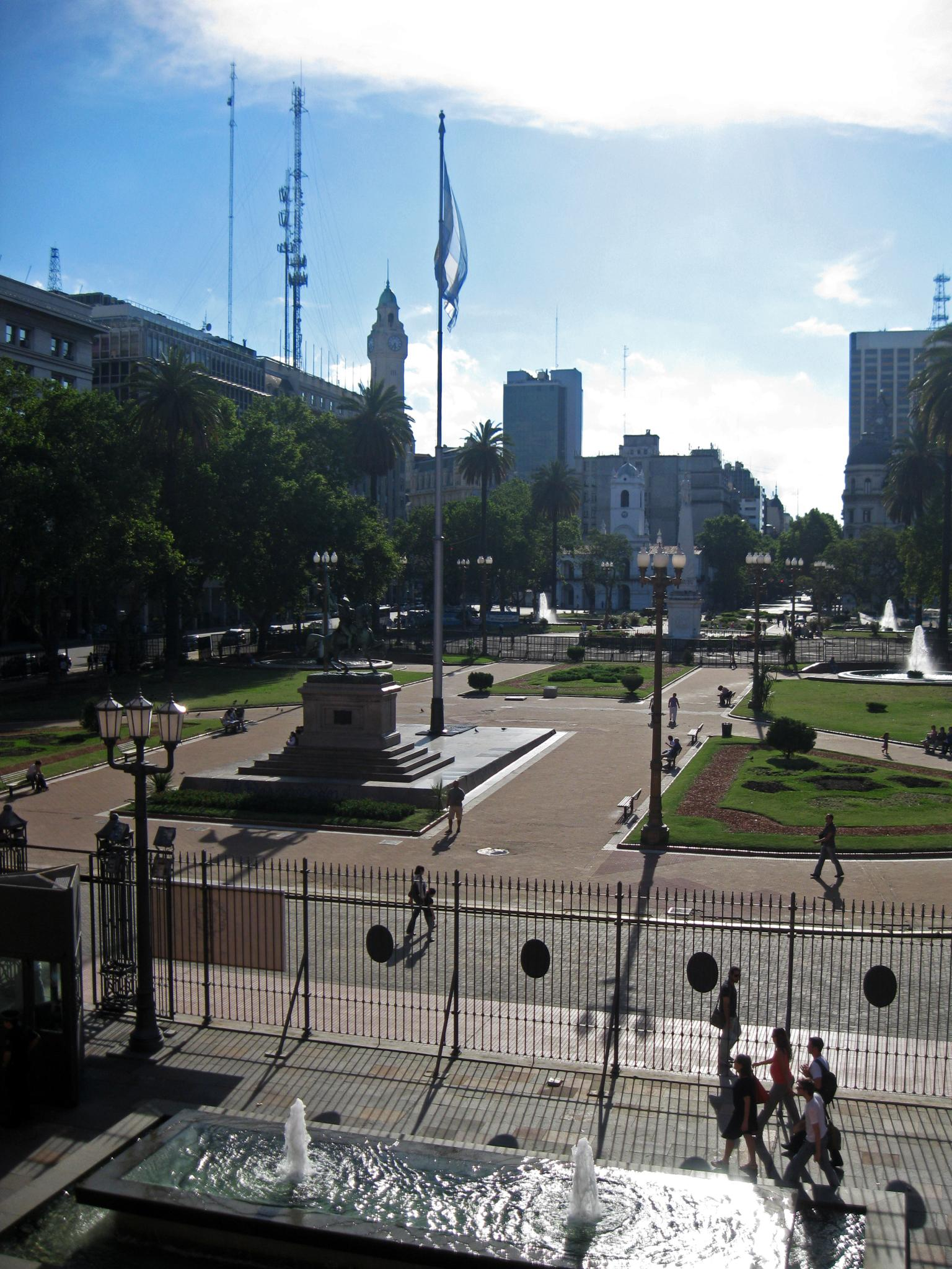 View of Plaza de Mayo from the balcony of the Casa Rosada, Buenos Aires